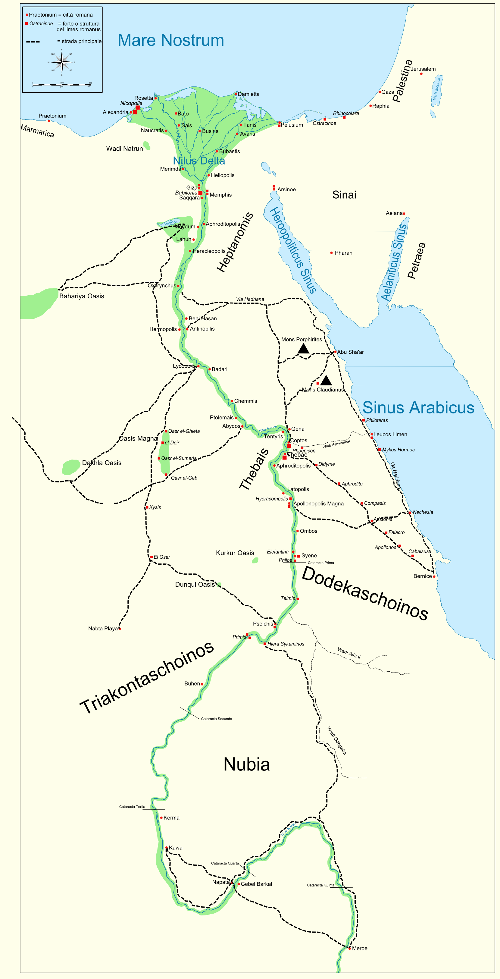 Map of Ancient Egypt, showing the Nile up to the fifth cataract, and major cities and sites of the Dynastic period (c. 3150 BC to 30 BC). Jerusalem is shown as reference cities.